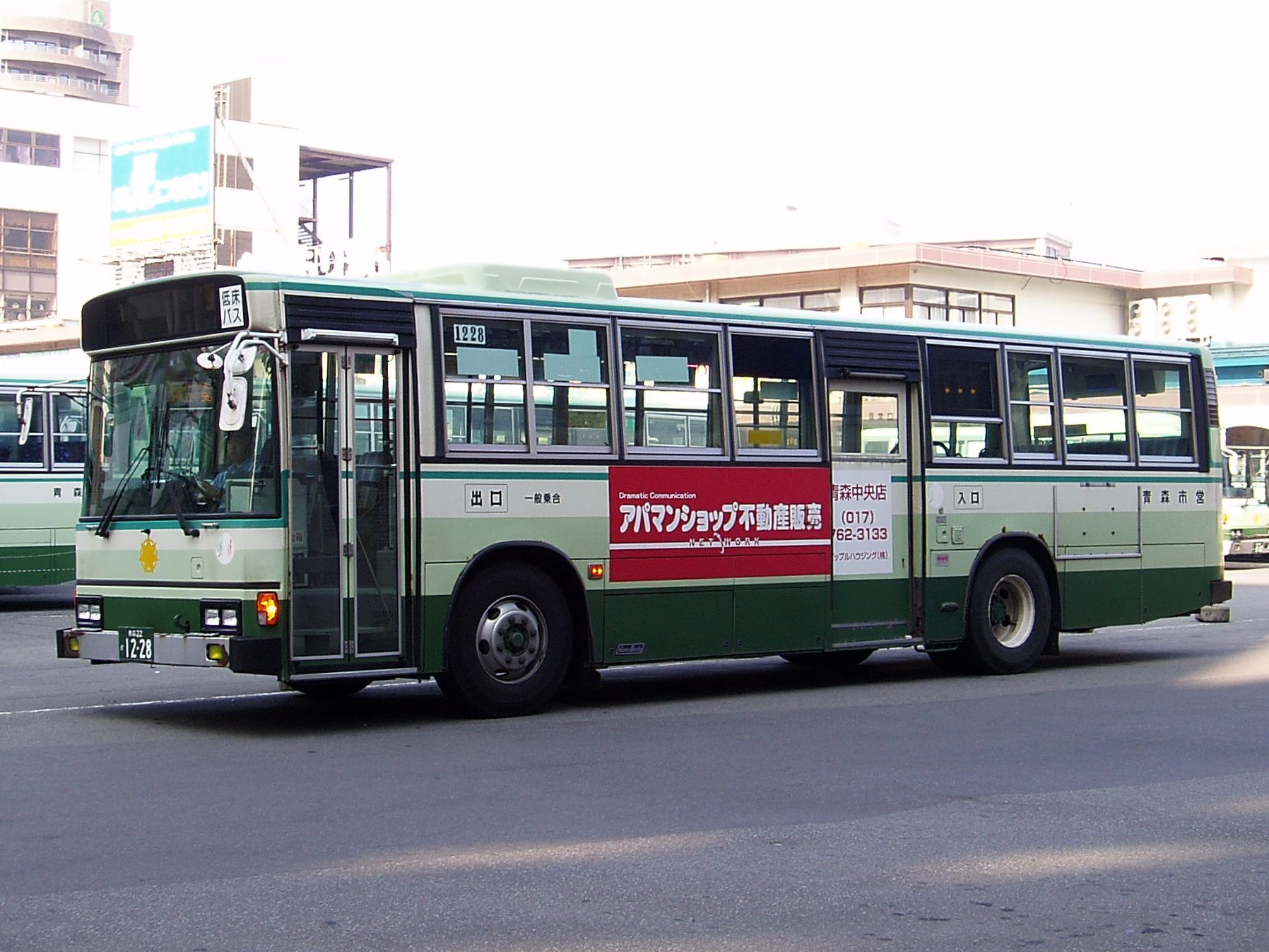 Aomori City Bus Hino KC-HU3KMCA at Aomori Sta.